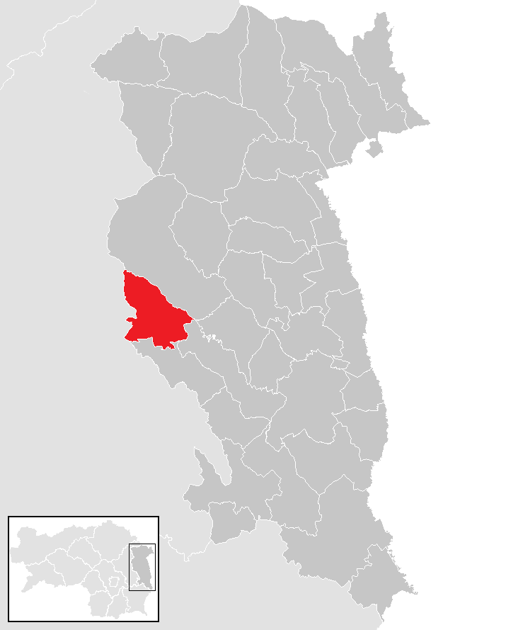 district Hartberg-Fürstenfeld